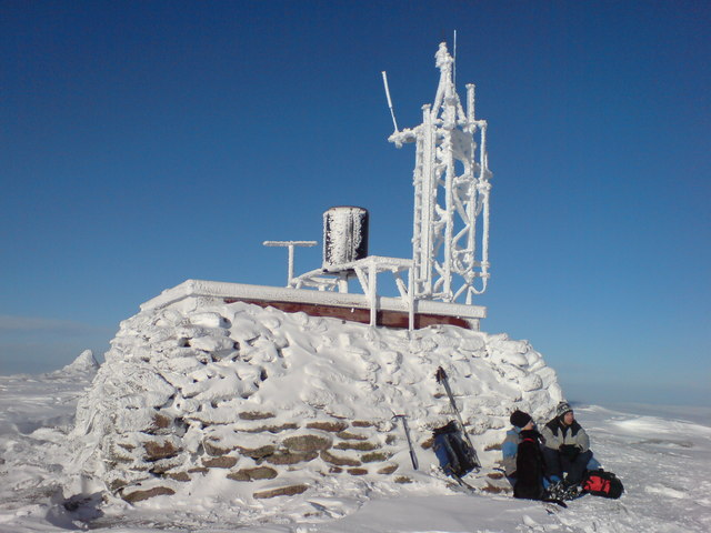 Weather Station, Cairngorm Summit